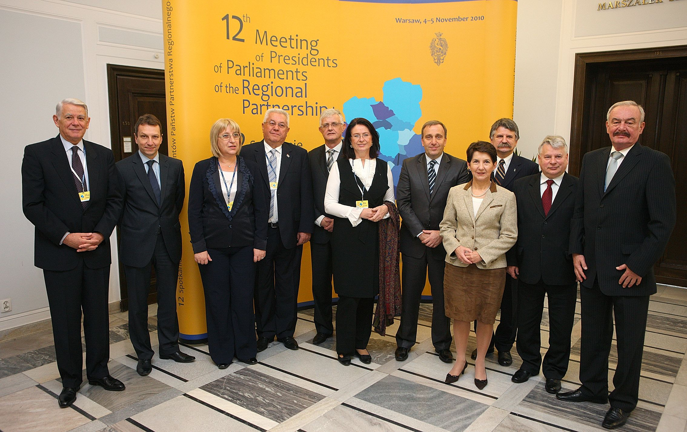 12th Meeting of Presidents of Parliaments of the Regional Partnership+ Countries in the Polish Senate. Standing from the left: Teodor Meleşcanu, Andrzej Halicki, Tsetska Tsacheva, Luka Bebić, Pavel Gantar, Miroslava Němcová, Grzegorz Schetyna, Barbara Prammer, László Kövér, Bogdan Borusewicz and Přemysl Sobotka